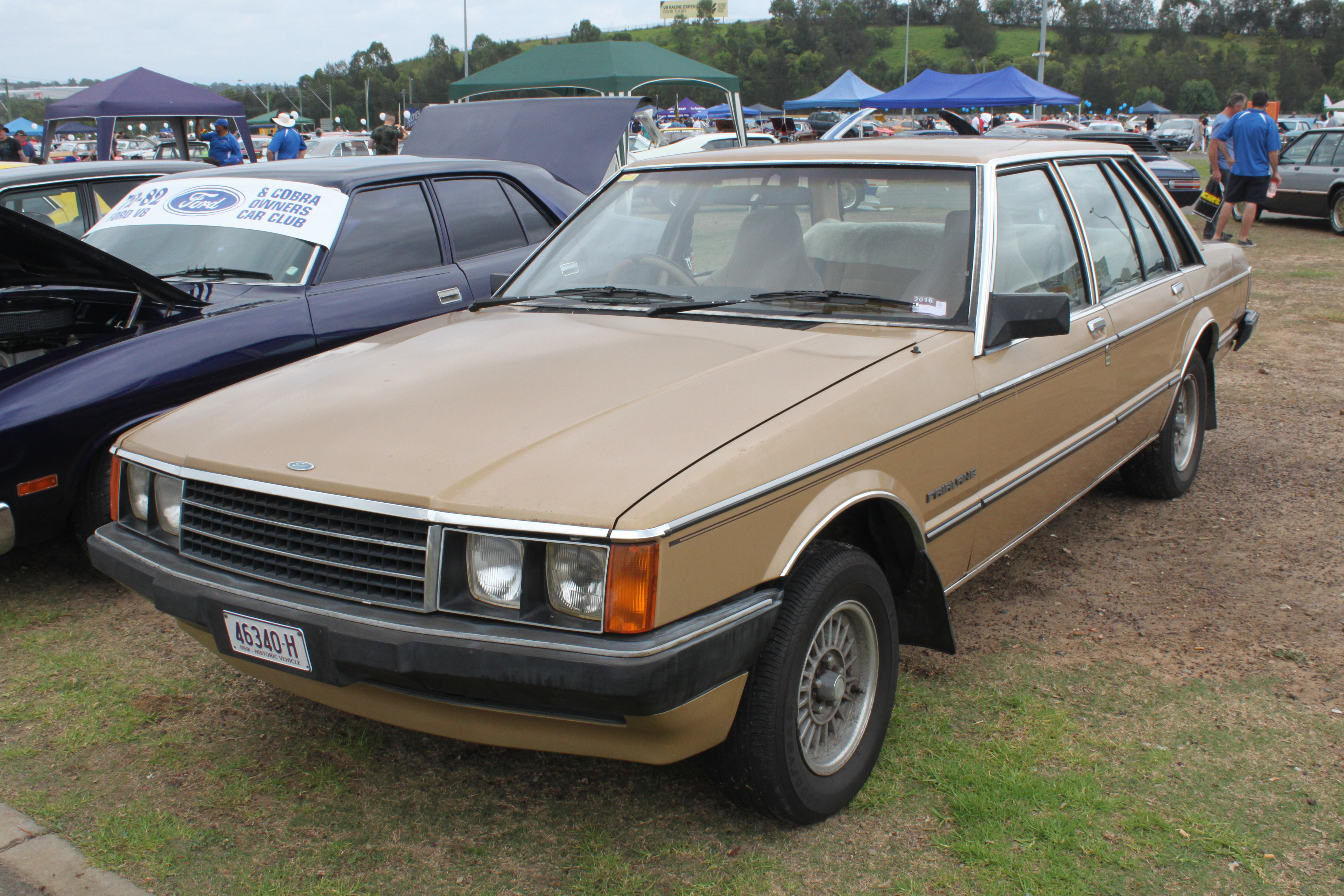 All Ford Day, Eastern Creek NSW, November 2015